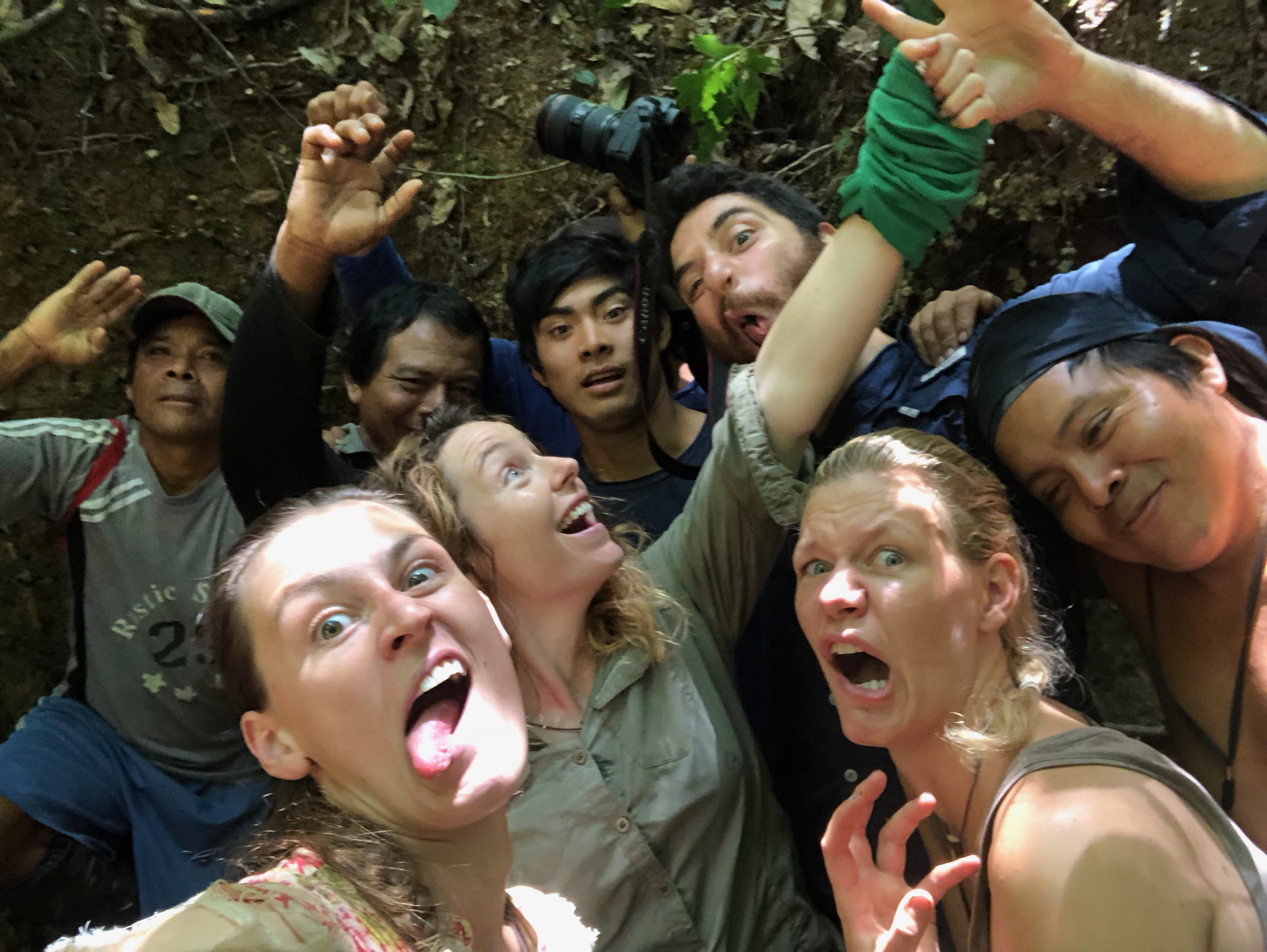 The team of Wai Wai and English, South African and Arabic at the furthest source of Essequibo.